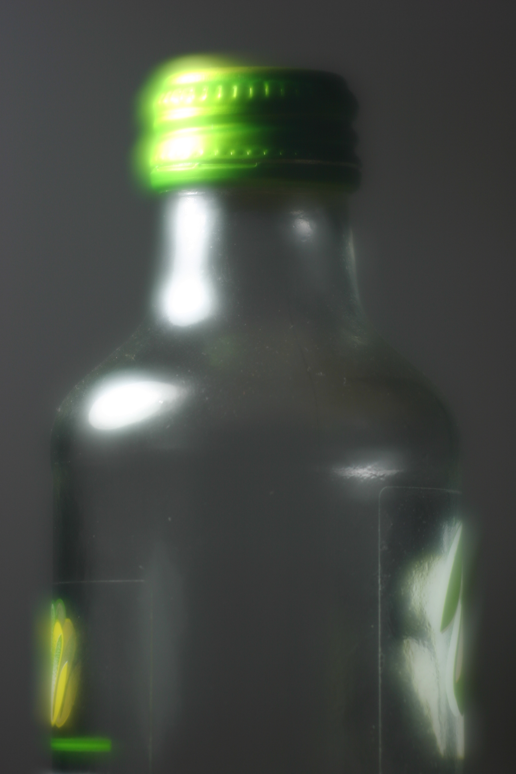 Part of a series illustrating the soft focus effect; in this instance, the Canon EF 135/2.8 Softfocus lens was used with the aperture fully open, along with a 20mm extension tube (to get close enough to the subject). In this image, the softfocus setting was set to 2.